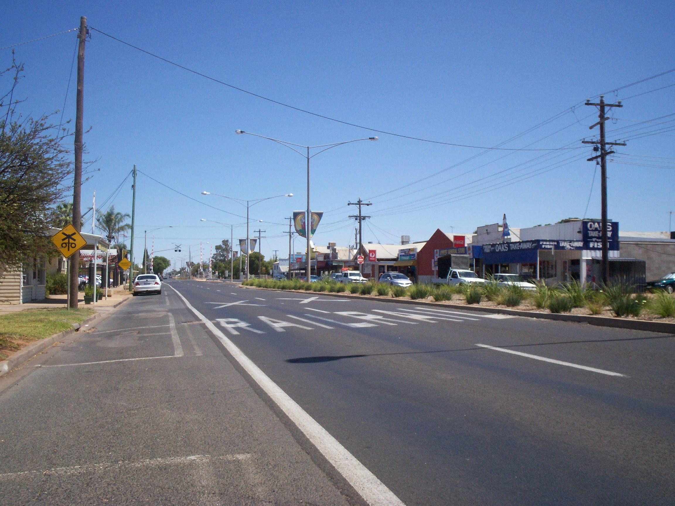 Irymple, Victoria Photograph taken by myself, December 28, en:2006